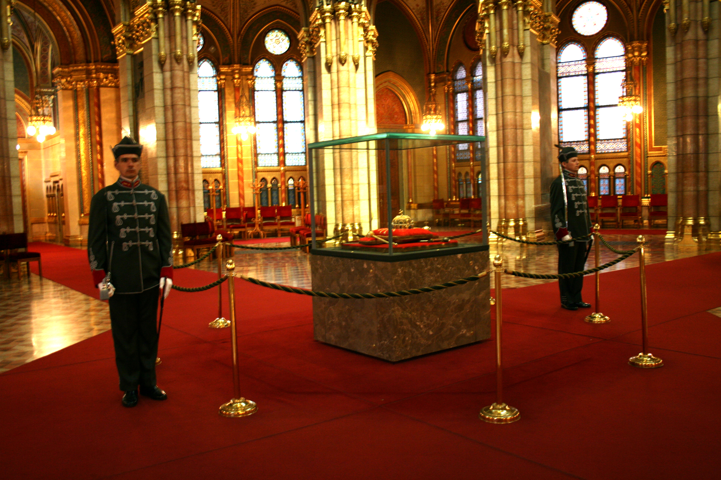 Hungary regalia deposited in Parliament of Hungary, Budapest, Hungary